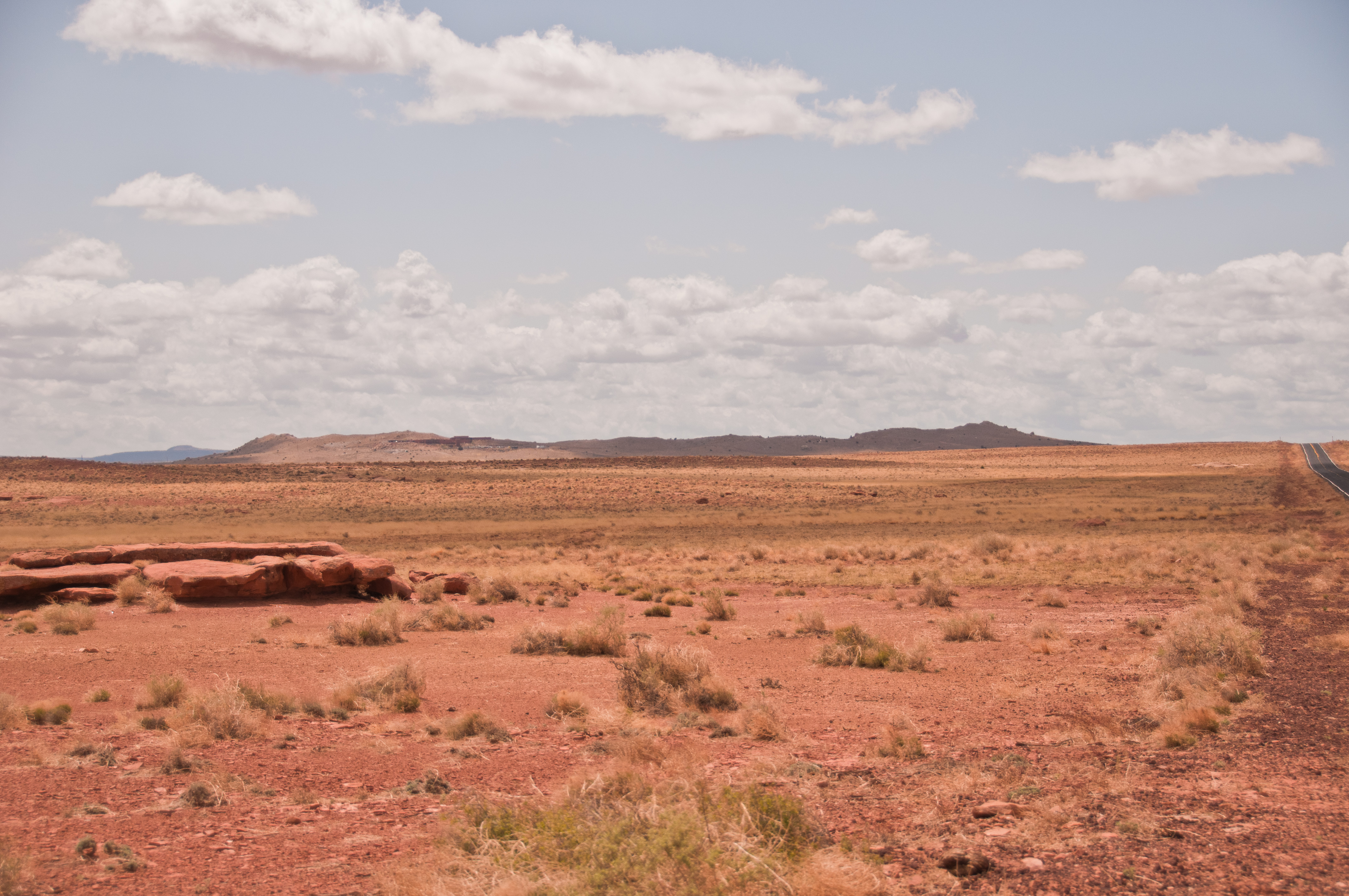 Meteor Crater in Arizona, USA, displaying its upfolded crater rim. Viewed from the north-north-west. Distance to the crater is approximately 3800 metres.